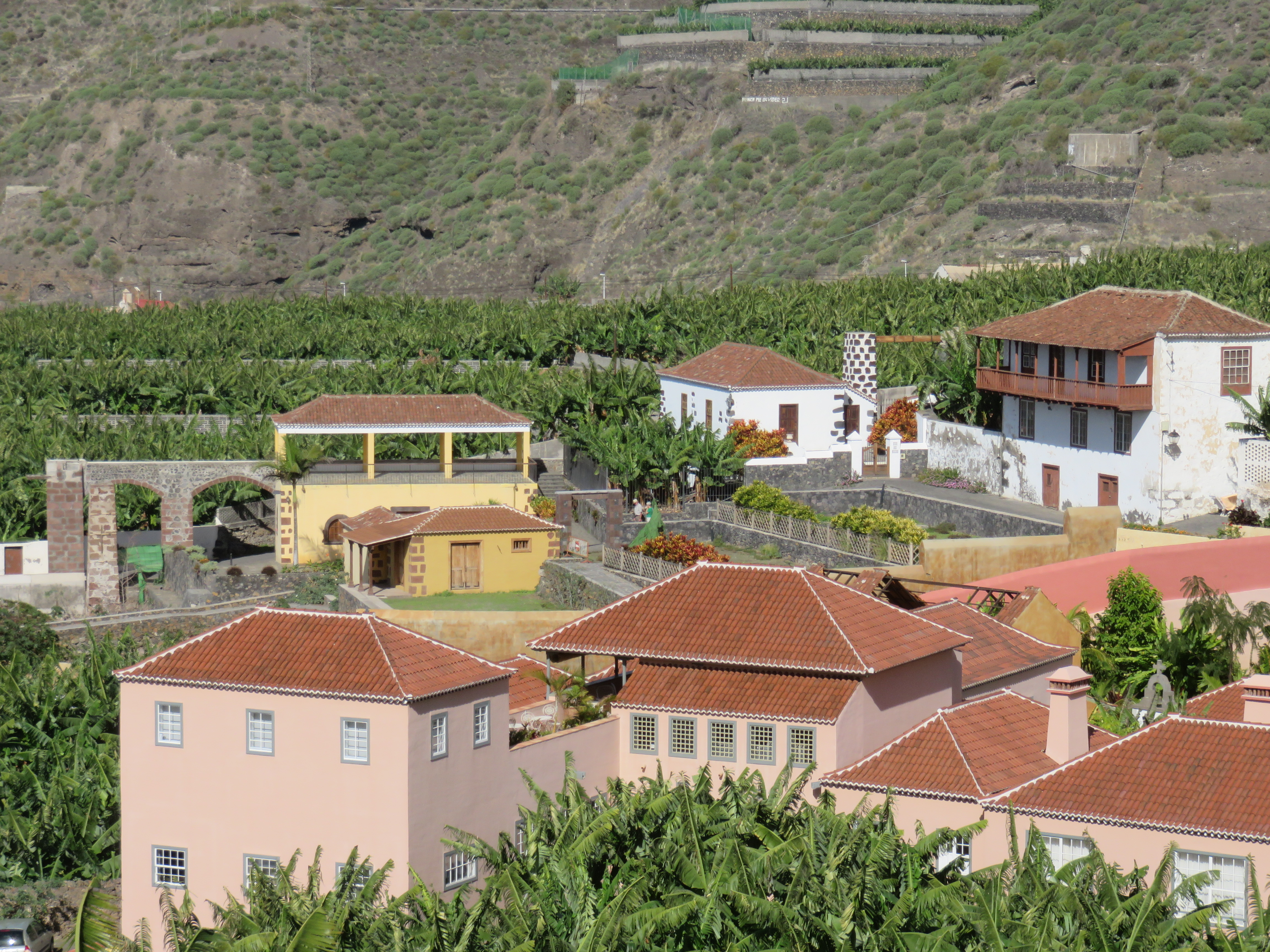 Tazacorte, the district of El Charco, in the upper image from right: Casa Monteverde, Molino Abajo, Los Lavaderos, Aqueduct